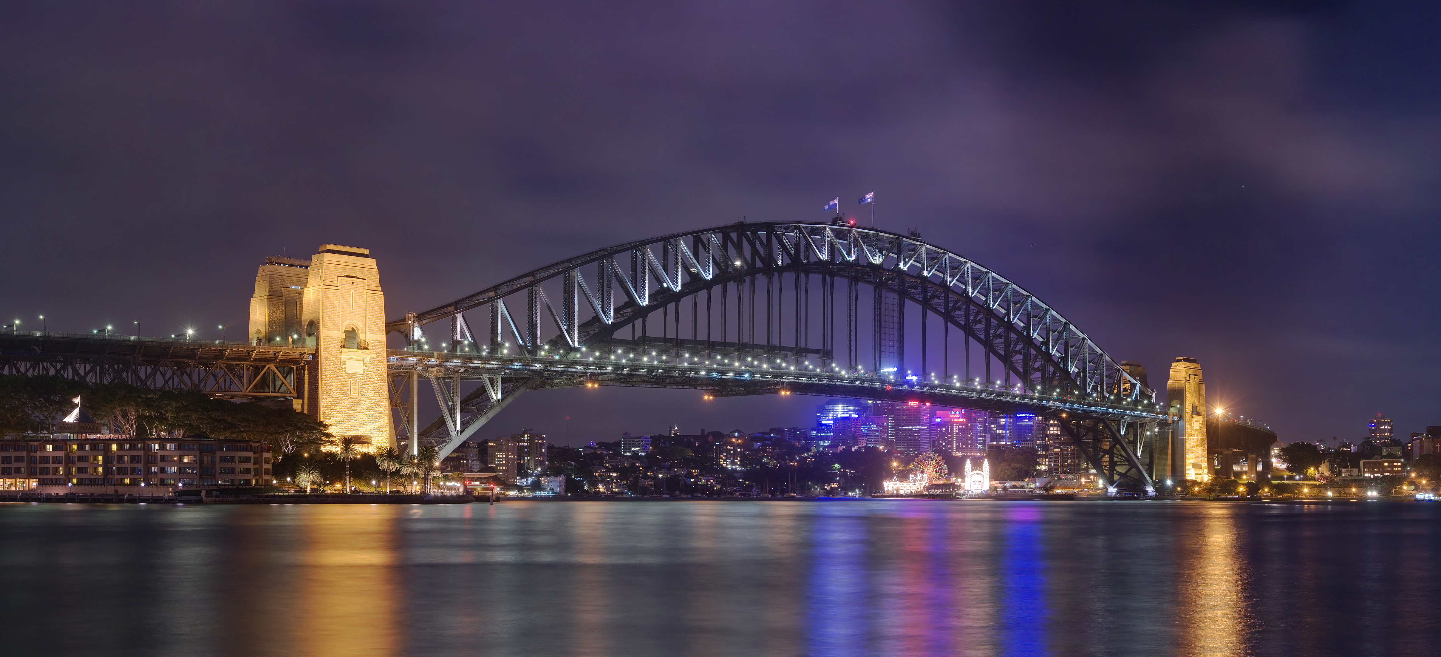 Sydney Harbour Bridge from Circular Quay, Sydney, New South Wales, Australia.